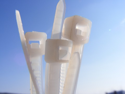 Free Photos – Self Locking Nylon Cable Ties More photos and details about possible copyright or licensing restrictions here: Full Size Up to 3072 x 2304 pixels Information Regarding Copyright